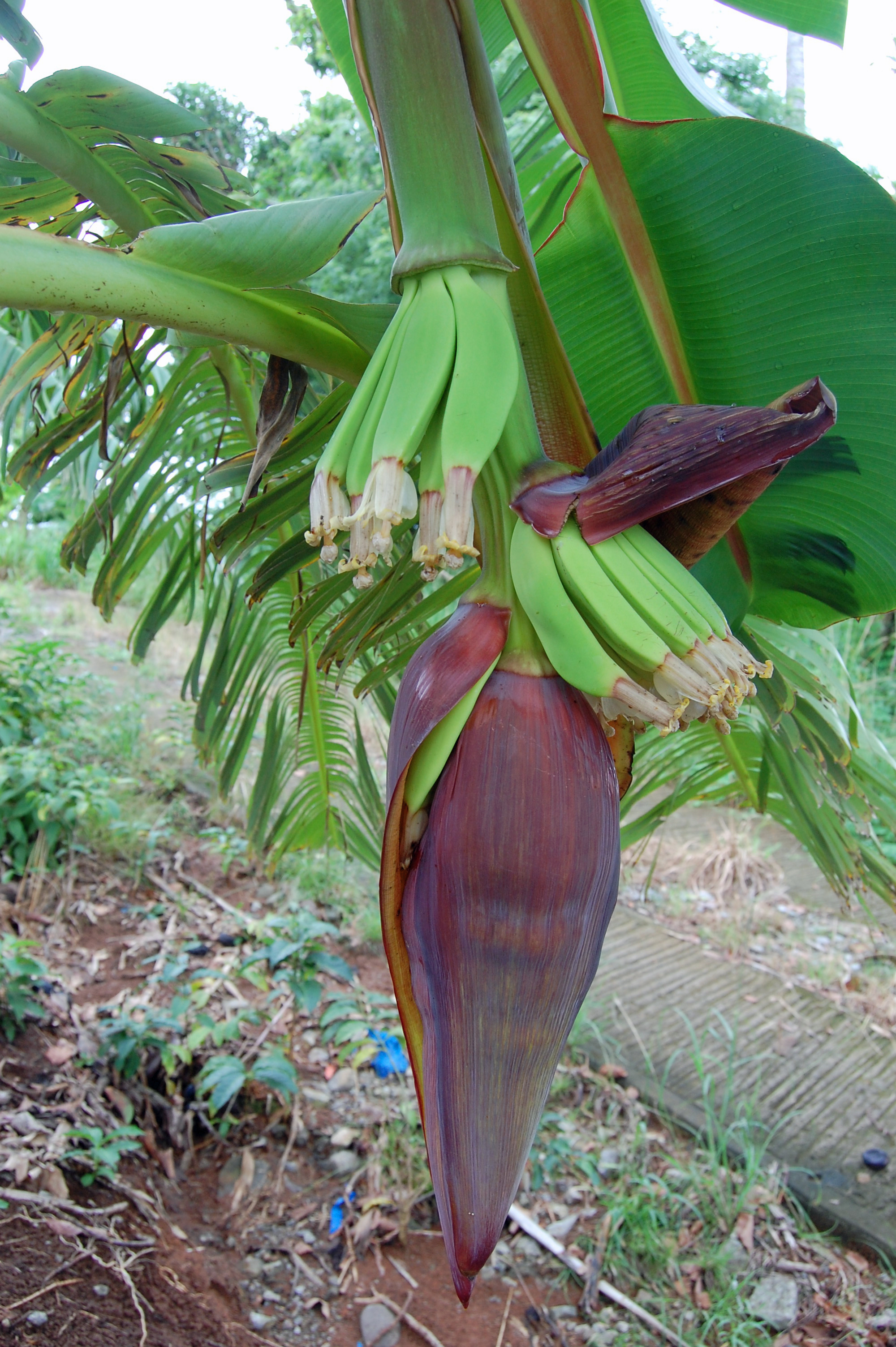 Small green bananas growing in Dominica.